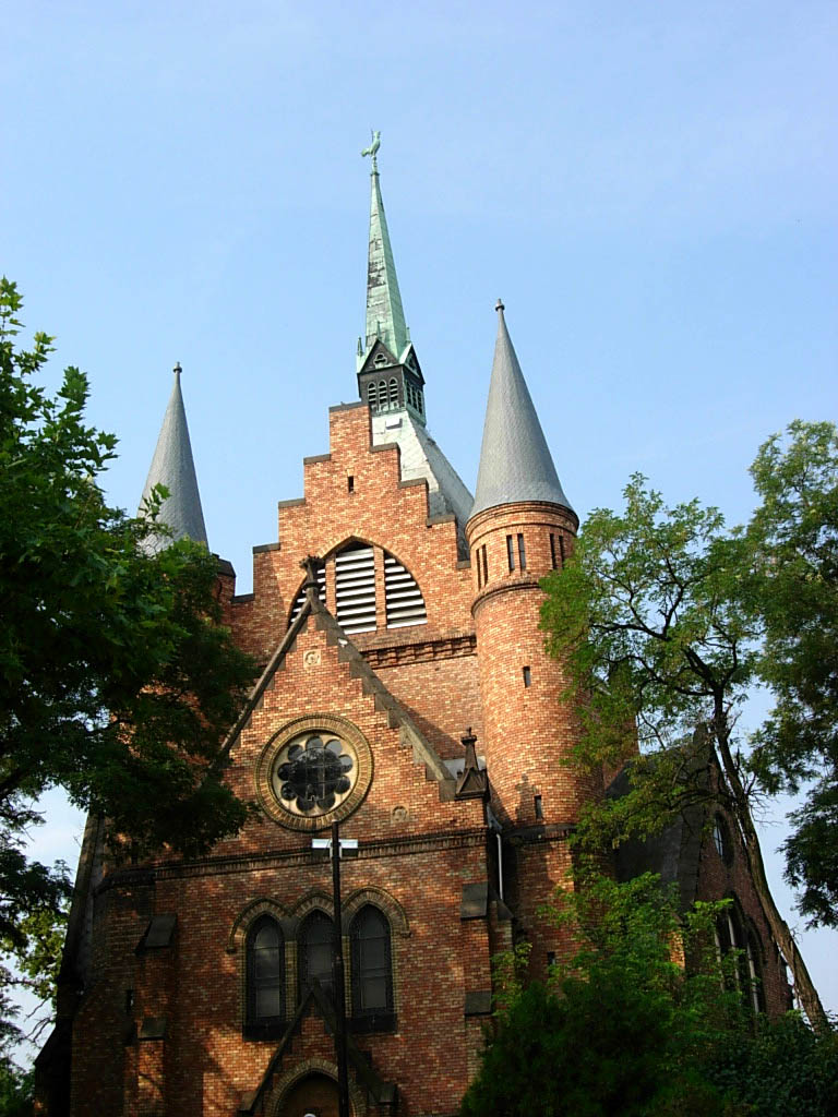 The Calvinist Church in Szolnok, Hungary.